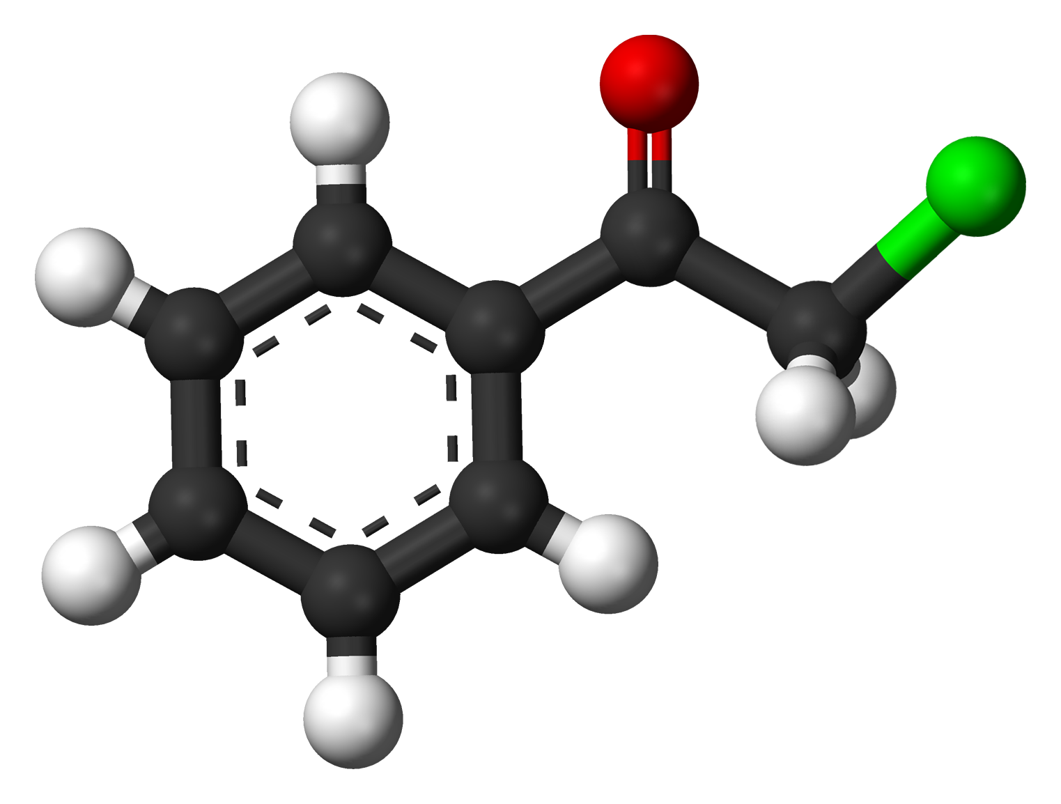 Ball-and-stick model of the phenacyl chloride molecule, a substituted acetophenone that was historically used as a riot control agent.